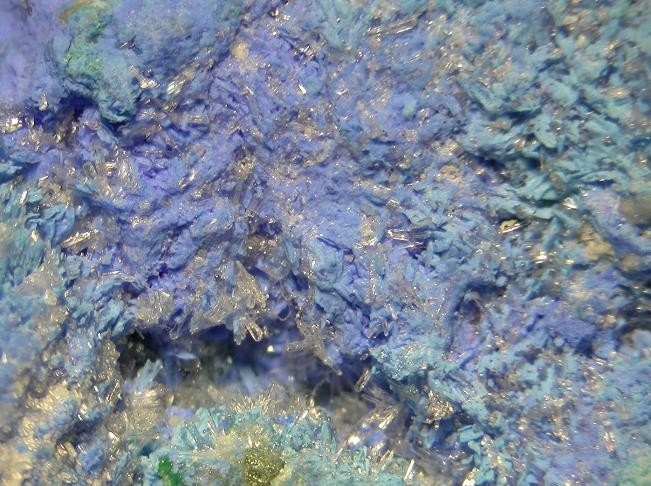 Juangodoyite, Sanrománite Locality: Santa Rosa Mine, Santa Rosa-Huantajaya District, Iquique Province, Tarapacá Region, Chile Ultramarine blue Juangodoyite together with colourless acicular Sanrománite xls. Field of view 6 mm. Specimen and photo Leon Hupperichs.